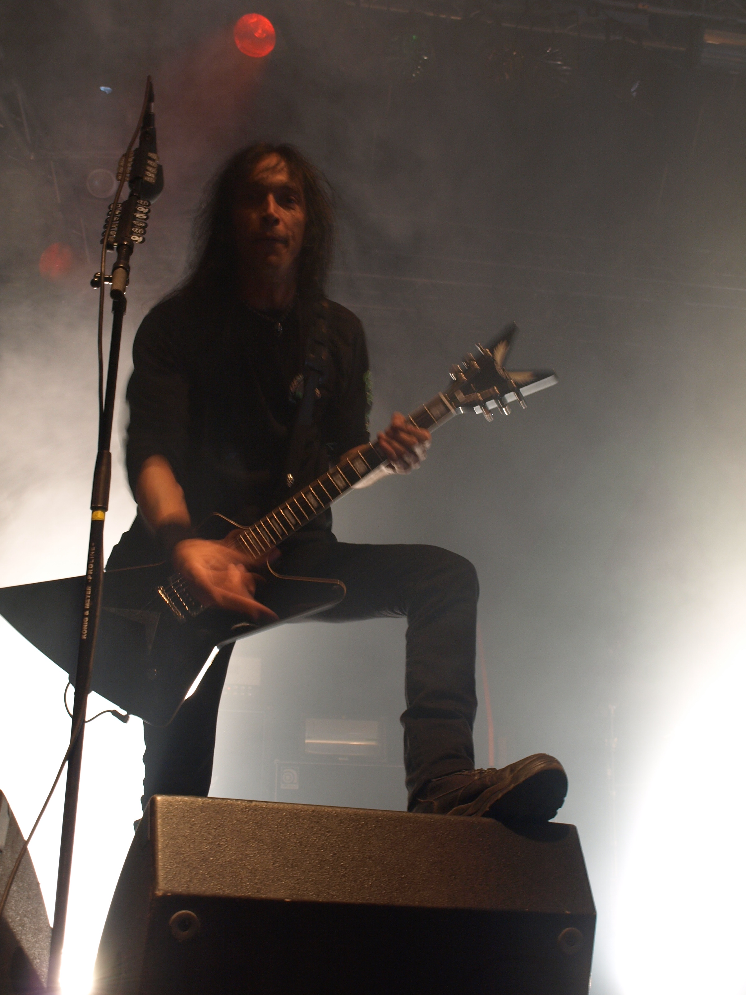 American thrash metal band Overkill live at Jalometalli 2008 in Oulu.